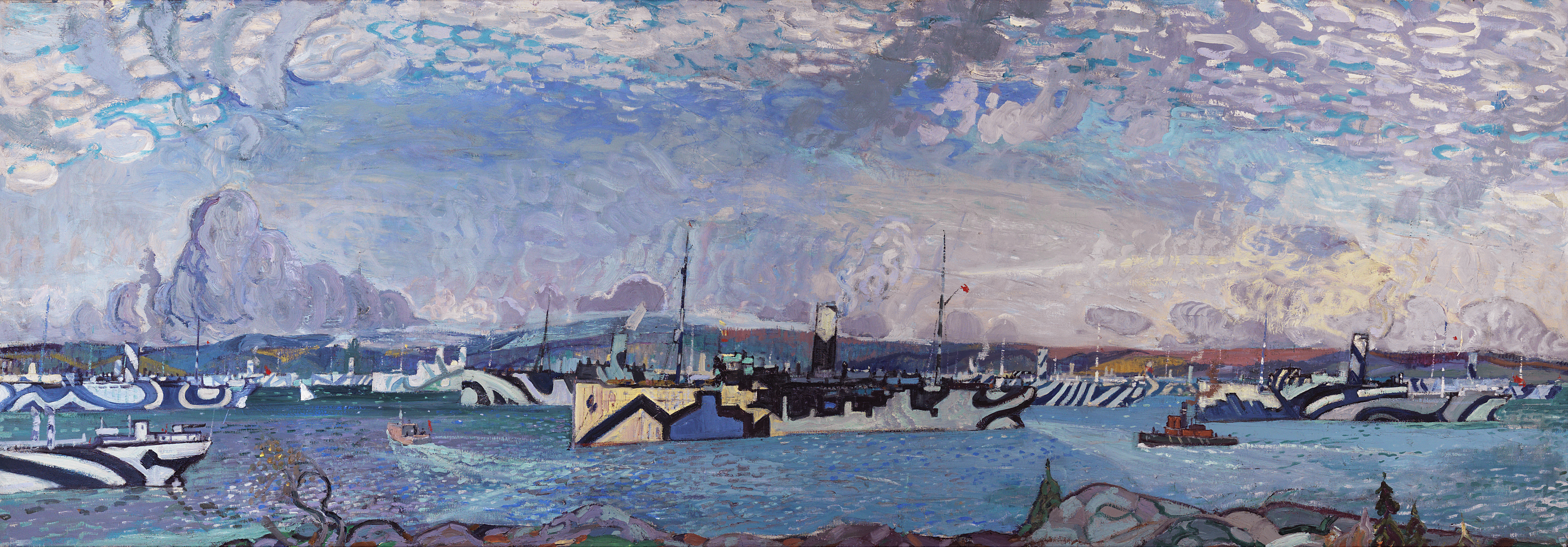 This large oil painting by Arthur Lismer, a future member of the Group of Seven, depicts merchant ships forming up in Bedford Basin, near Halifax, Nova Scotia, for a trans-Atlantic convoy. Halifax was a vital naval base for merchant ships travelling from North America to bring food, supplies, and personnel to Britain and Europe. In 1917, the growing losses of these ships to German U-Boat (submarine) attacks led to the introduction of convoys, which banded together merchant ships and escorting warships. Convoys were effective, but required extensive organization to coordinate the arrivals, voyages, and departures of merchant ships and warships. The camouflage patterns depicted here, called "dazzle," were intended to help protect vessels at sea from U-Boat attack.